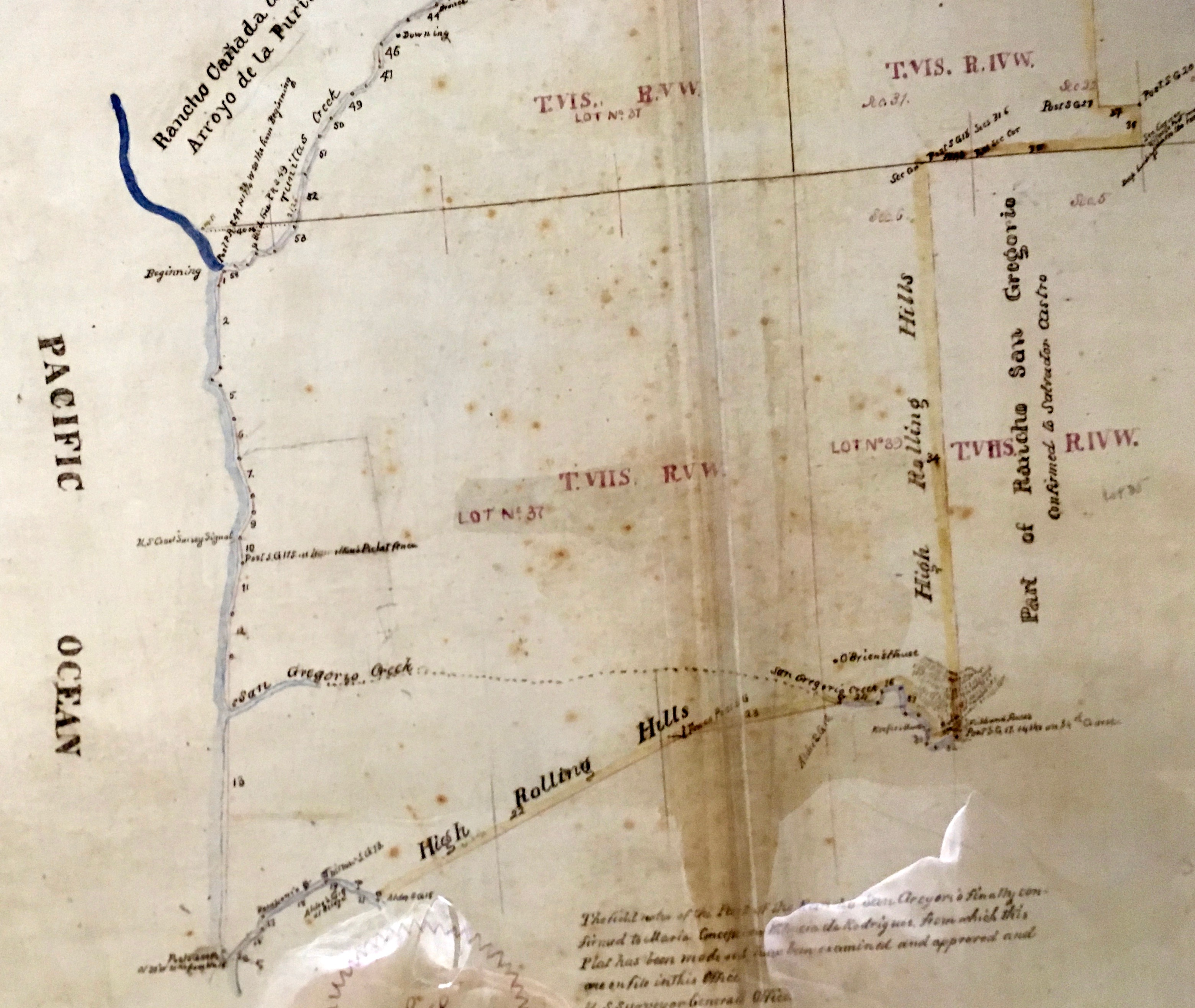 The 1857 official survey of Castro's land gave him more than the Land Commission thought he should to have, the surplus being taken from the lands of the United States